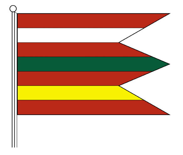 Zastava V.Lom